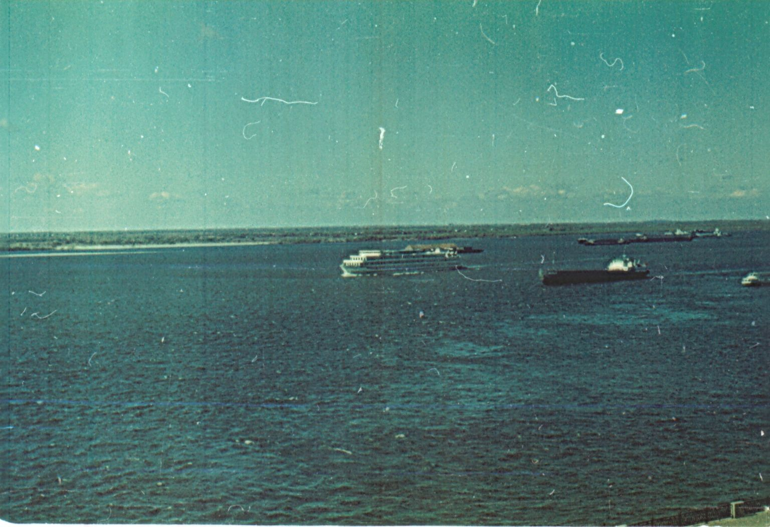 River cruise ship 30 let GDR in Khabarovsk in October of 1981